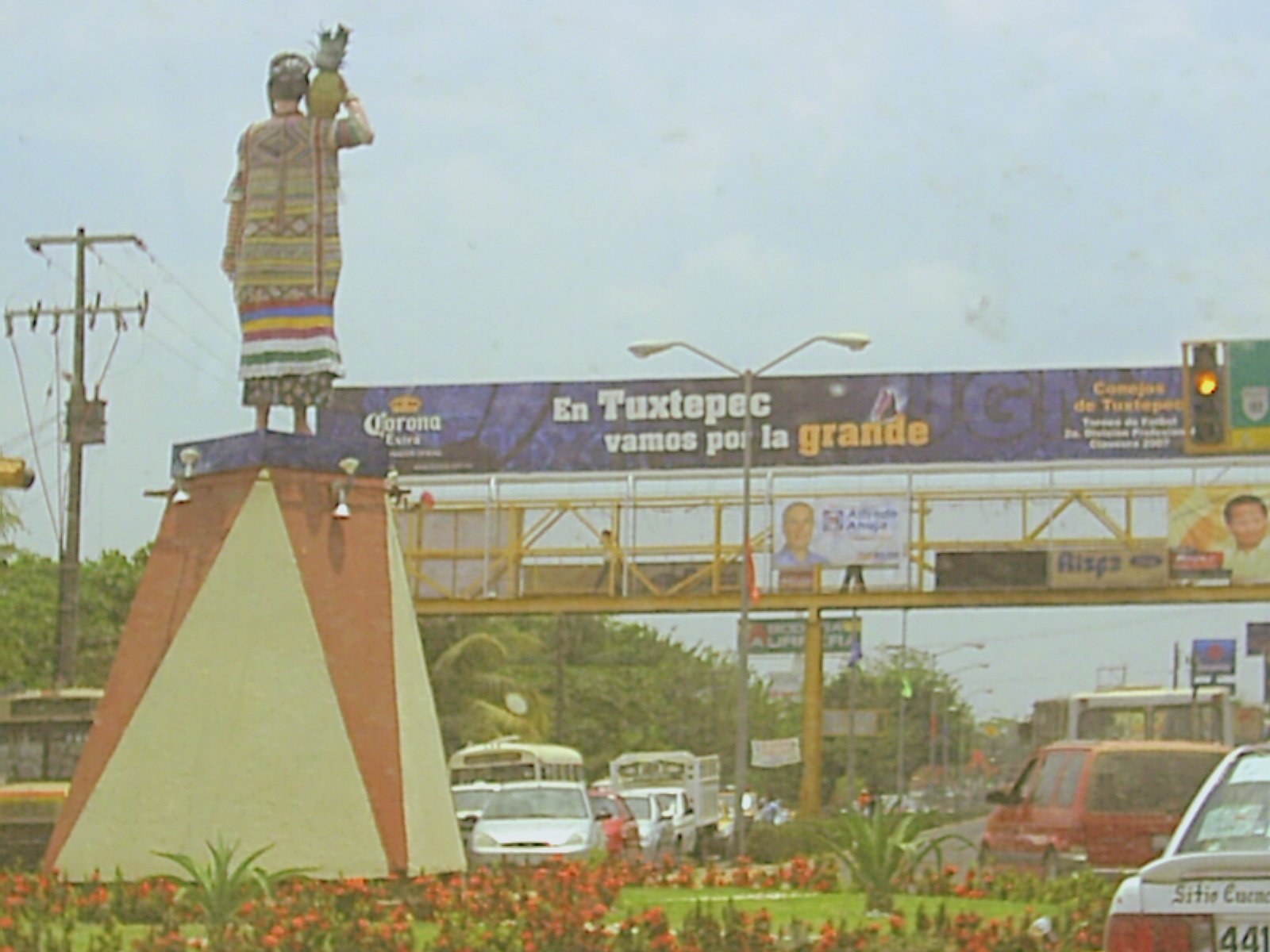 Blvd. Benito Juárez; Tuxtepec City